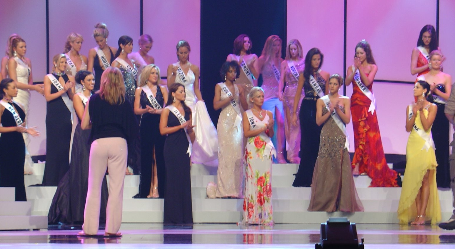 Contestants rehearsing for the Miss USA 2004 pageant